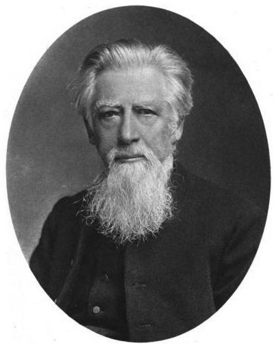 Richard Watson Dixon (d. 1900), from frontispiece of 1905 book, the Last Poems of Richard Watson Dixon.